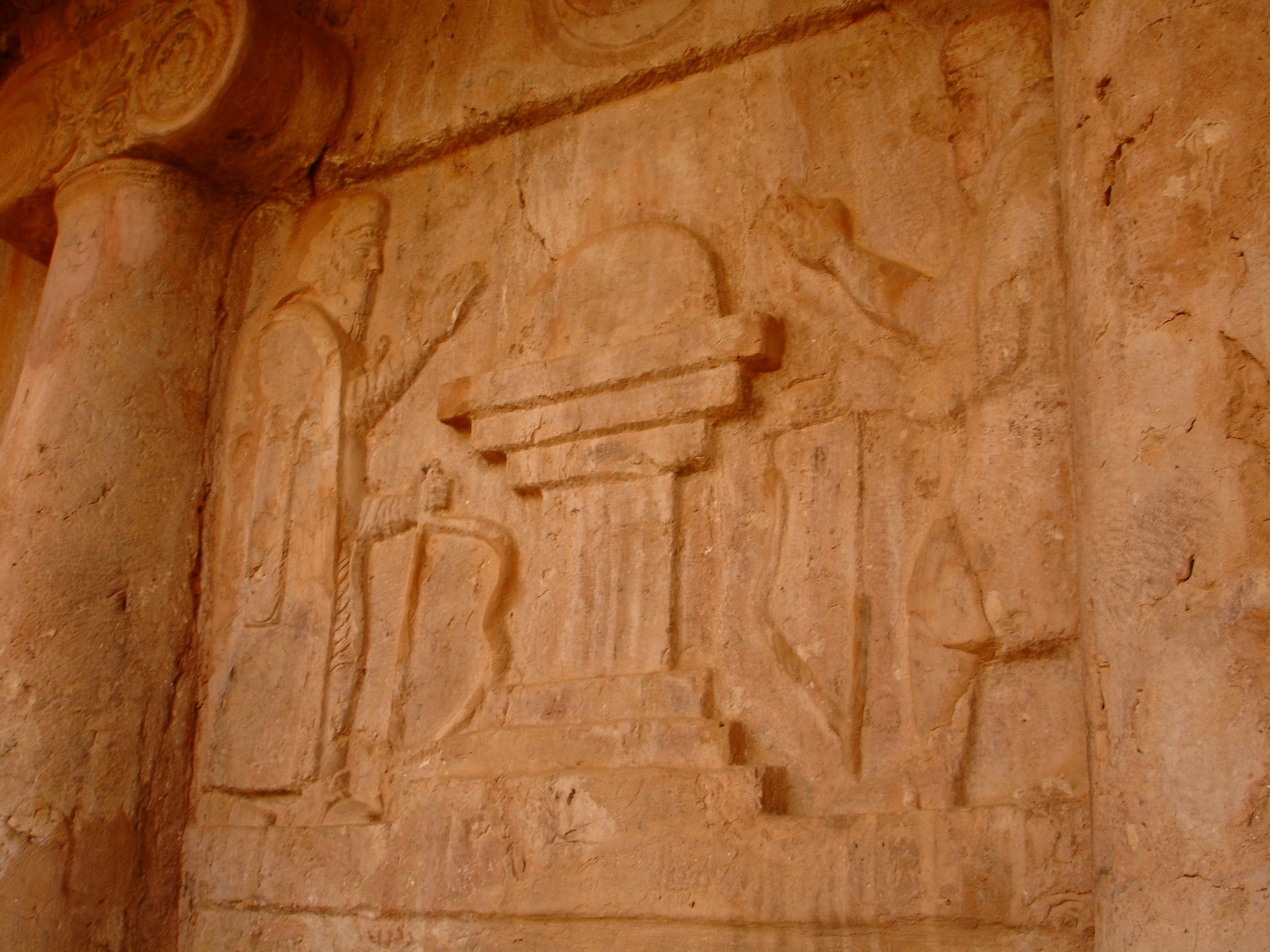 A old tomb of the Zoroastrianism religion in the Sulaymaniyah province. The inside has been robbed and is empty. See metadeta for more info. This Picture was taken in Kurdistan.